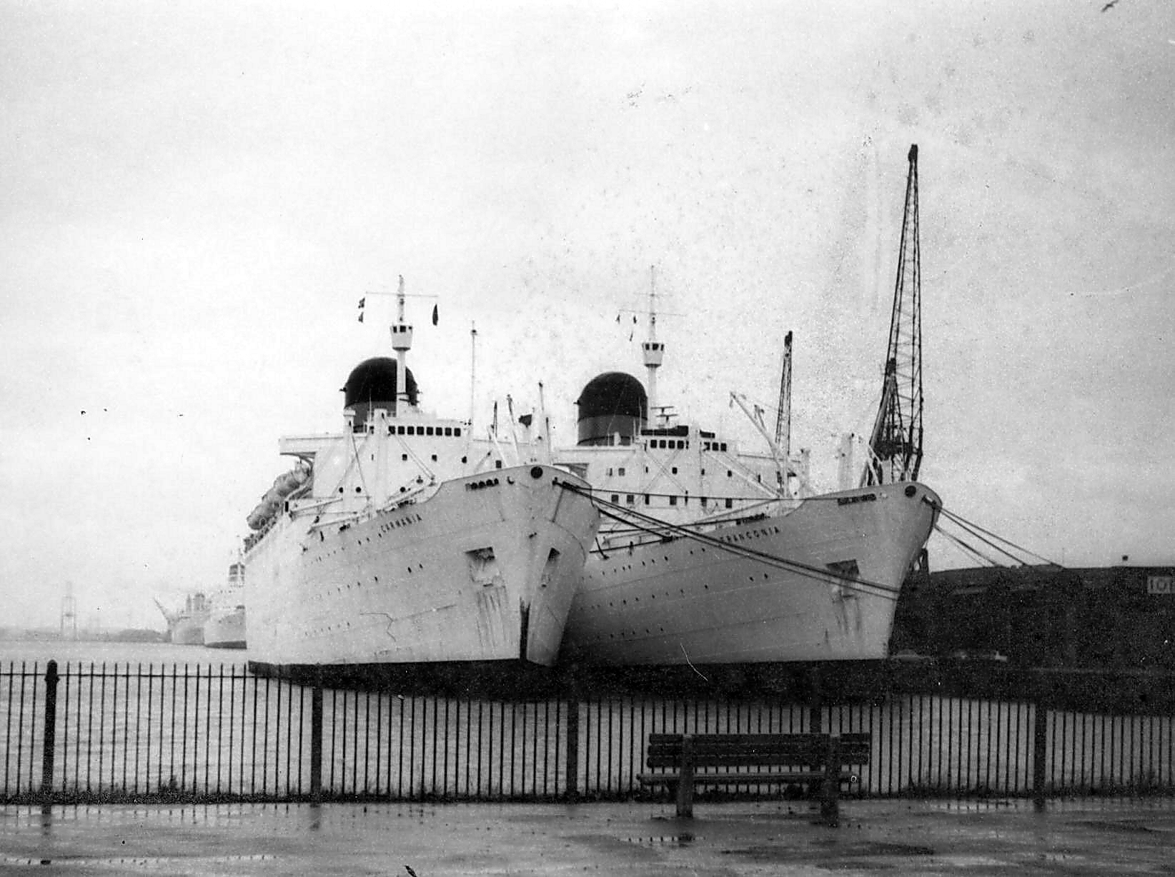 Franconia and Carmania, New Docks, Southampton